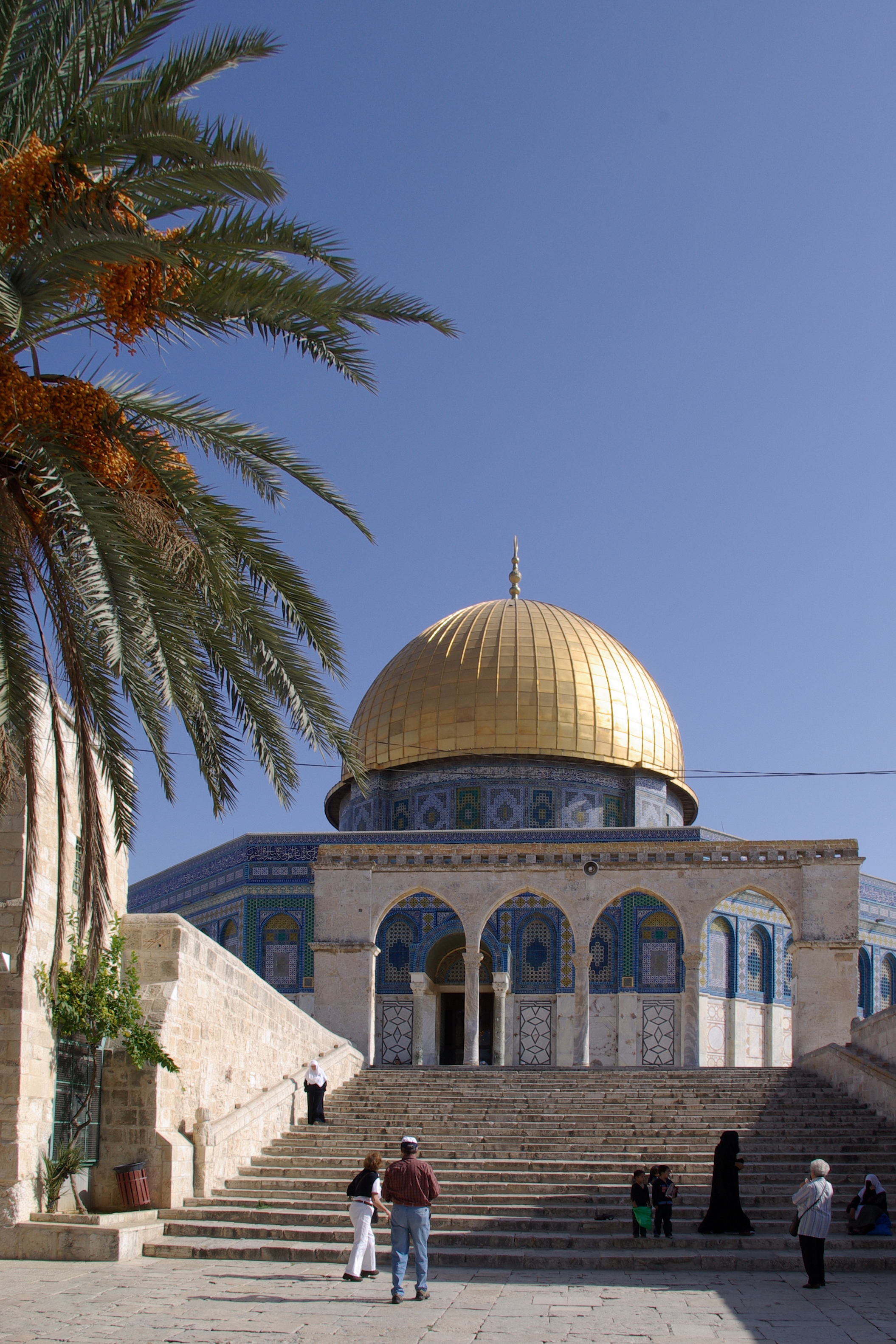 Jerusalem, Dome of the Rock